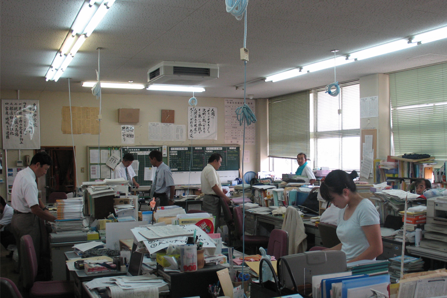 A teachers' room at Onizuka Middle School in Karatsu, Saga, Japan. In Japanese schools, classes of students usually stay in one place and teachers go around from room to room each period.